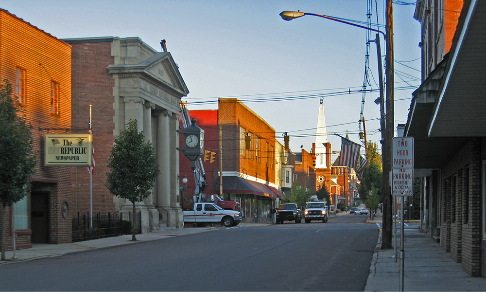 Main street with civic anchors; Bank , Newspaprer, Church This work is licensed under a Creative Commons Attribution 3.0 United States License.